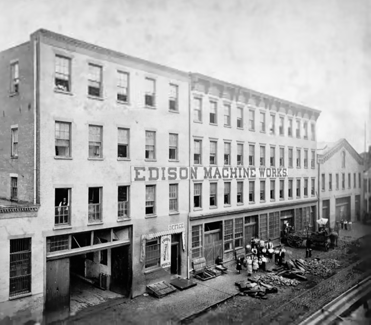 An 1881 photograph of the The Edison Machine Works, formerly the Etna Iron Works, located on Goerck Street, Manhattan by Edison employee Charles L. Clarke. The Edison Machine Works was a manufacturing company set up to produce dynamos, large electric motors, and other components of the electrical illumination system being built by Thomas A. Edison in New York City in the 1880s. This section of lower east Manhattan was cleared in the 1950s to make way for the large Baruch Houses housing project so the building and Goerck Street itself no longer exists.